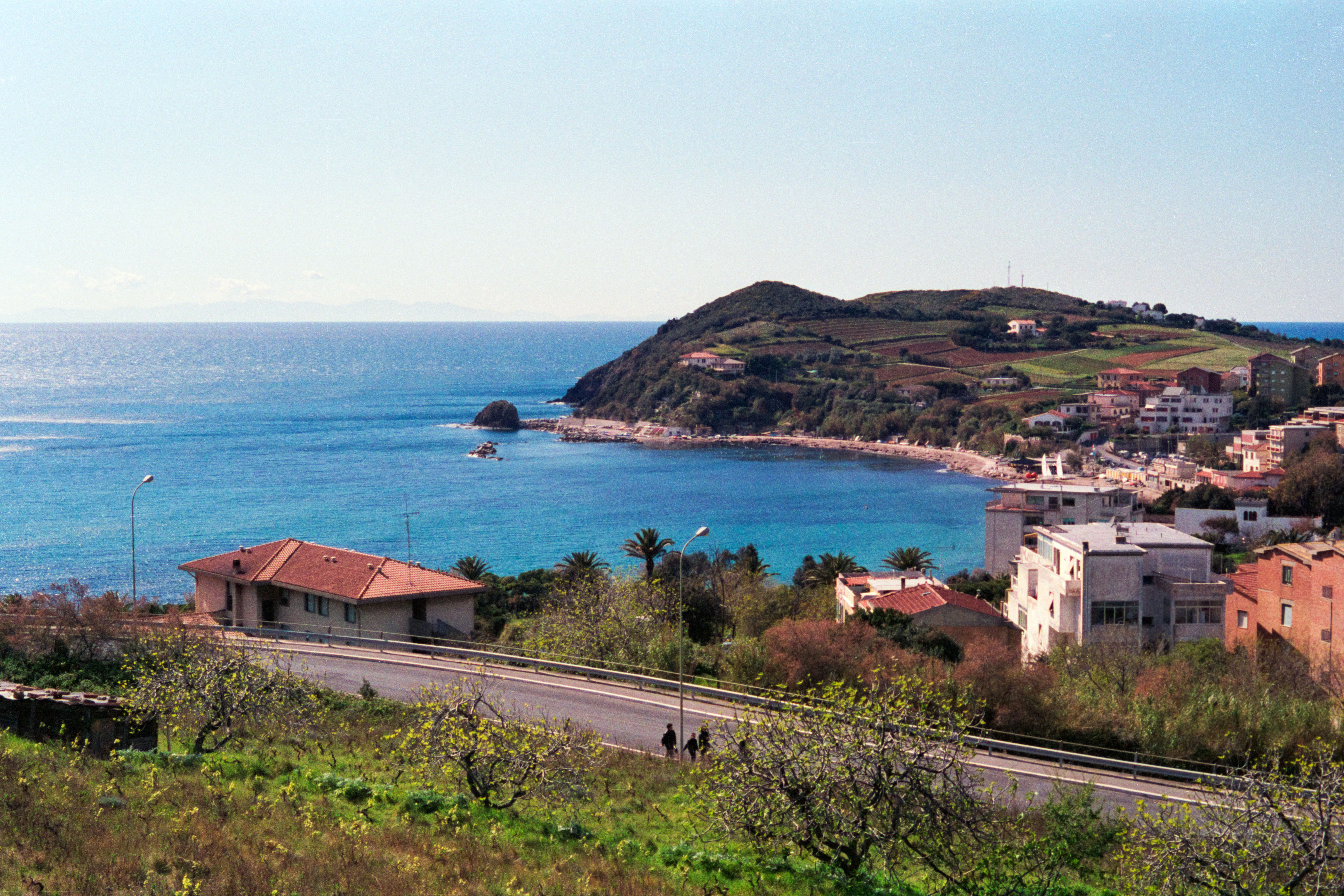 Salivoli gulf in Piombino (Italy). Photo taken in 1997 prior to the touristic marina building.